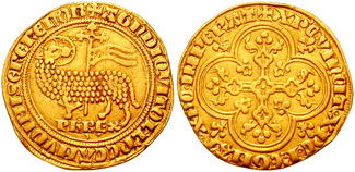 Kings of France. Philip IV. 1284-1314. AV Agnel d'or (4.04 gm). Struck 1311. Lamb of God with banner on trefoil cross; Ph RX below Floreate cross in quadrilobe with four lis. Duplessy 212; Ciani 199; Friedberg 258. VF, nice strike. Rare.